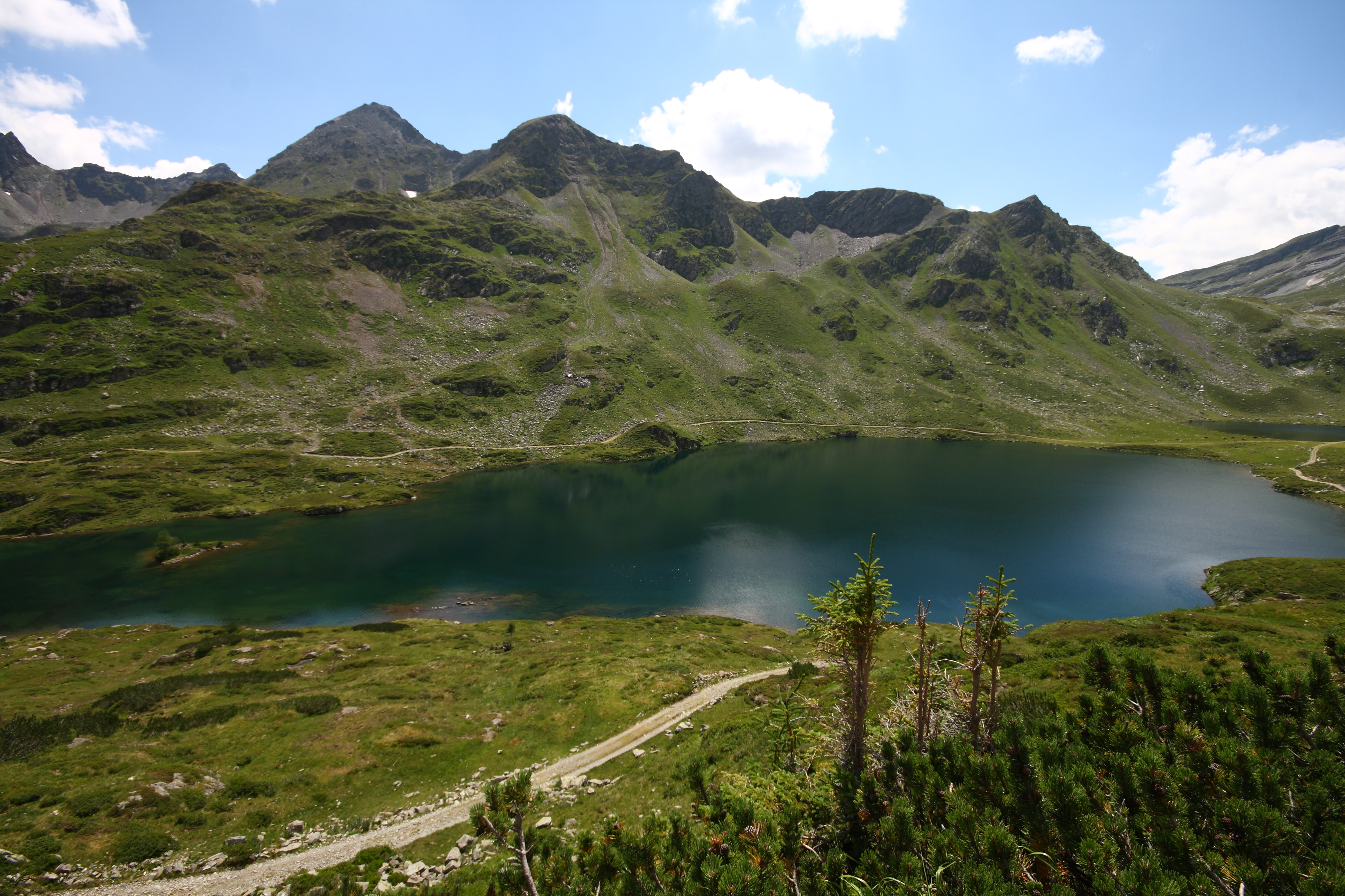 Lower Giglachlake, Schladminger Tauern, Styria, Austria